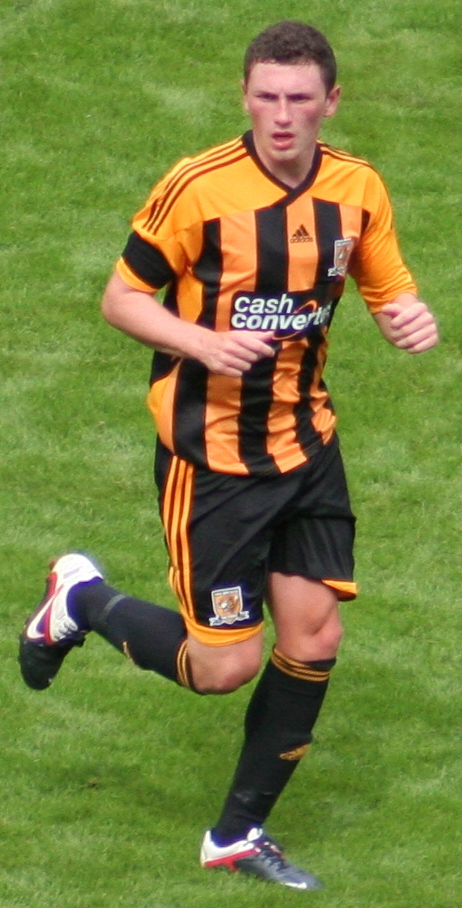 Corry Evans. Image cropped from original at flickr.